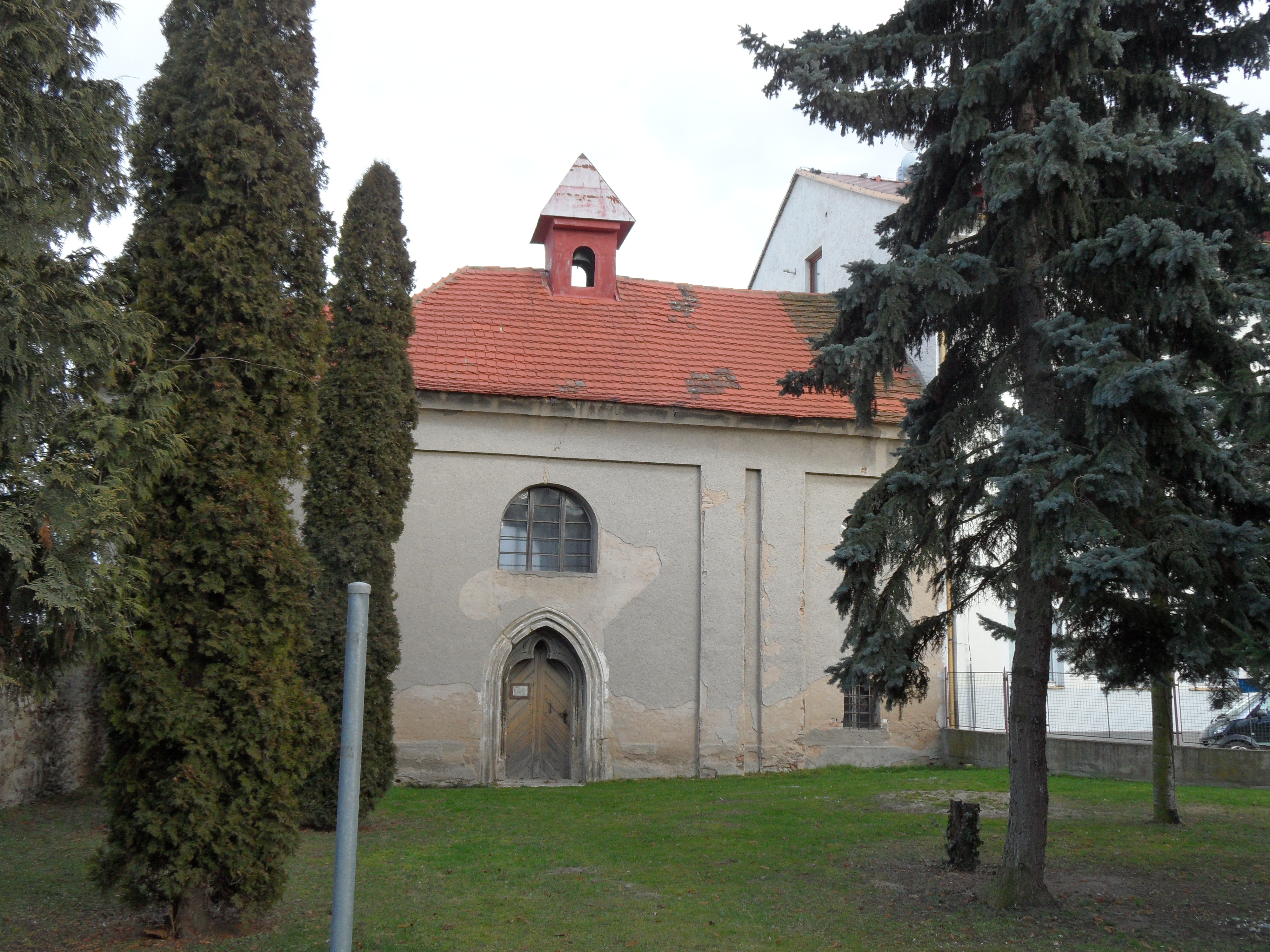 Chocenice (Břežany I) A. Chapel of Saint Anne, Kolín District, the Czech Republic.